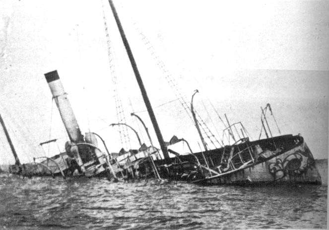 Ottoman gunboat Bafra sunk by gunfire from Italian cruiser Piemonte and destroyer Artigliere at Al Qunfudhah (Red Sea) in January 7, 1912.